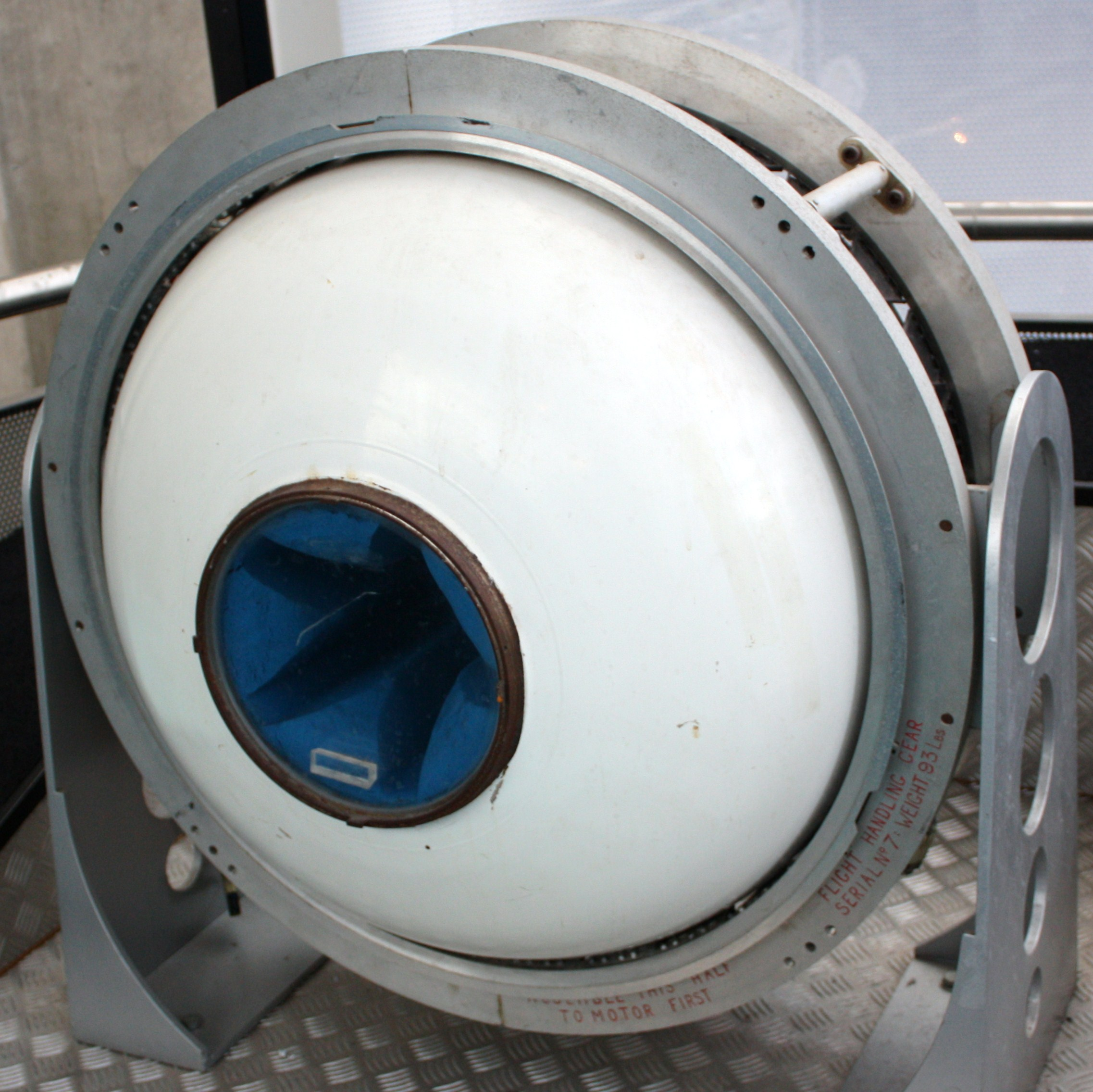 A Waxwing rocket motor, as used on the third stage of the British BLACK ARROW rocket, seen without its engine nozzle at the National Space Centre, Leicester.